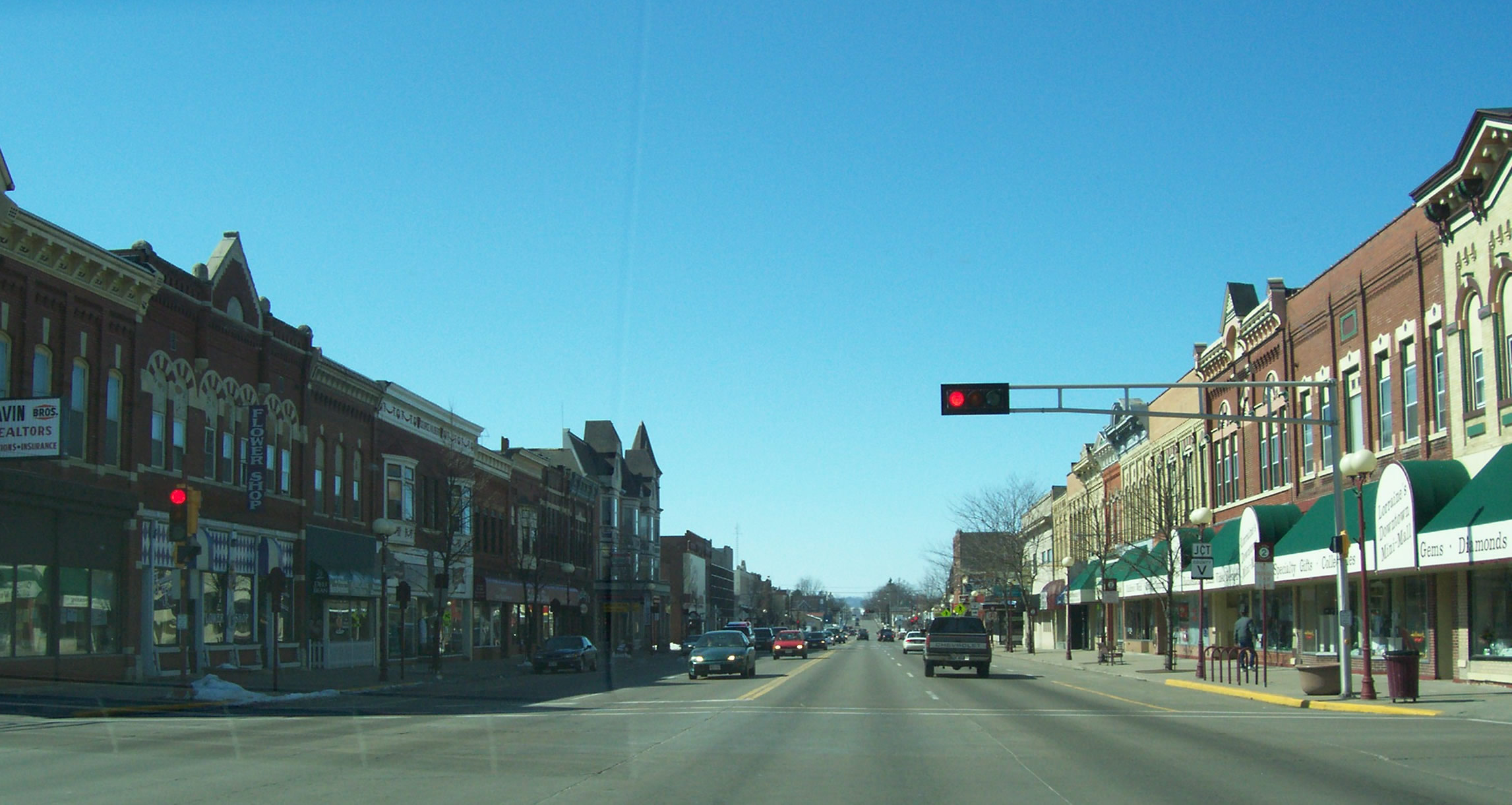 Looking at downtown Reedsburg, Wisconsin, USA while travelling on Wisconsin Highways 23 and 33. Taken March 11, 2007 by myself. Cropped from the original.